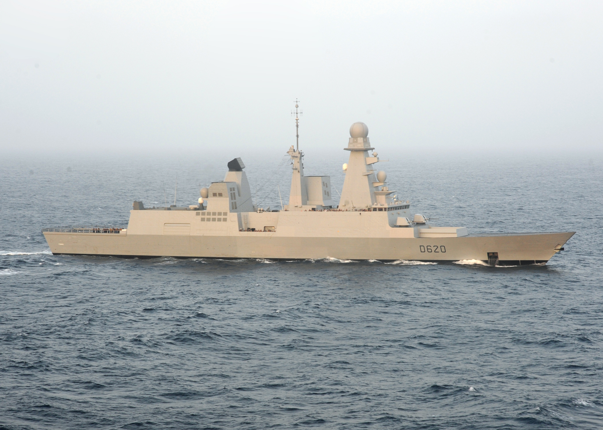 The French Marine Nationale destroyer Forbin (D620) underway in the Arabian Sea on 31 May 2009. She operated alongside the U.S. Navy aircraft carrier USS Dwight D. Eisenhower (CVN-69), not pictured. Eisenhower, with assigned Carrier Air Wing 7 (CVW-7), was deployed to the Mediterranean Sea and the Indian Ocean from 21 February to 30 July 2009.